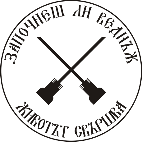 An anti-drug slogan in Bulgarian: If you start once, the life ends up.